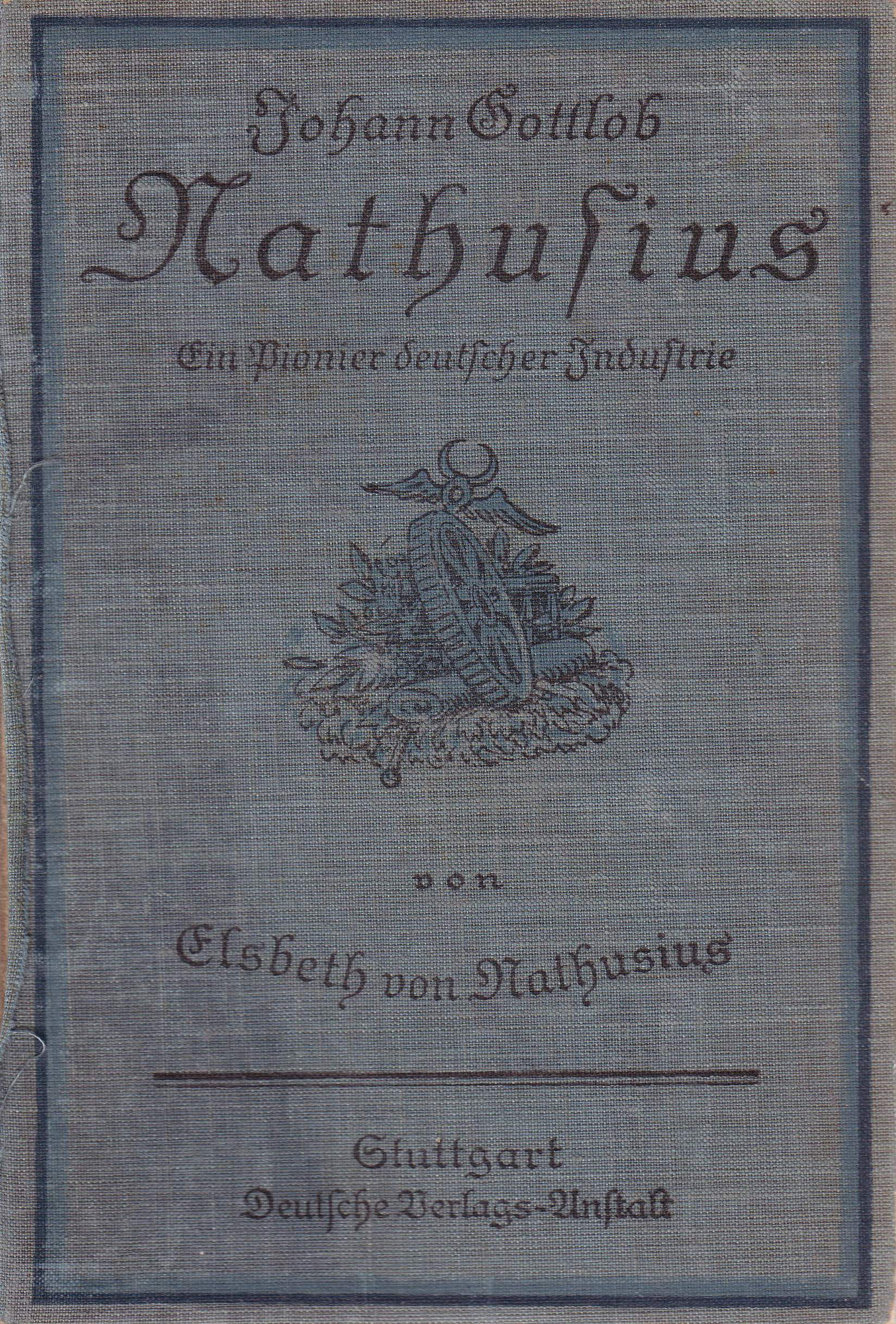 book cover, Elsbeth von Nathusius about Johann Gottlob Nathusius